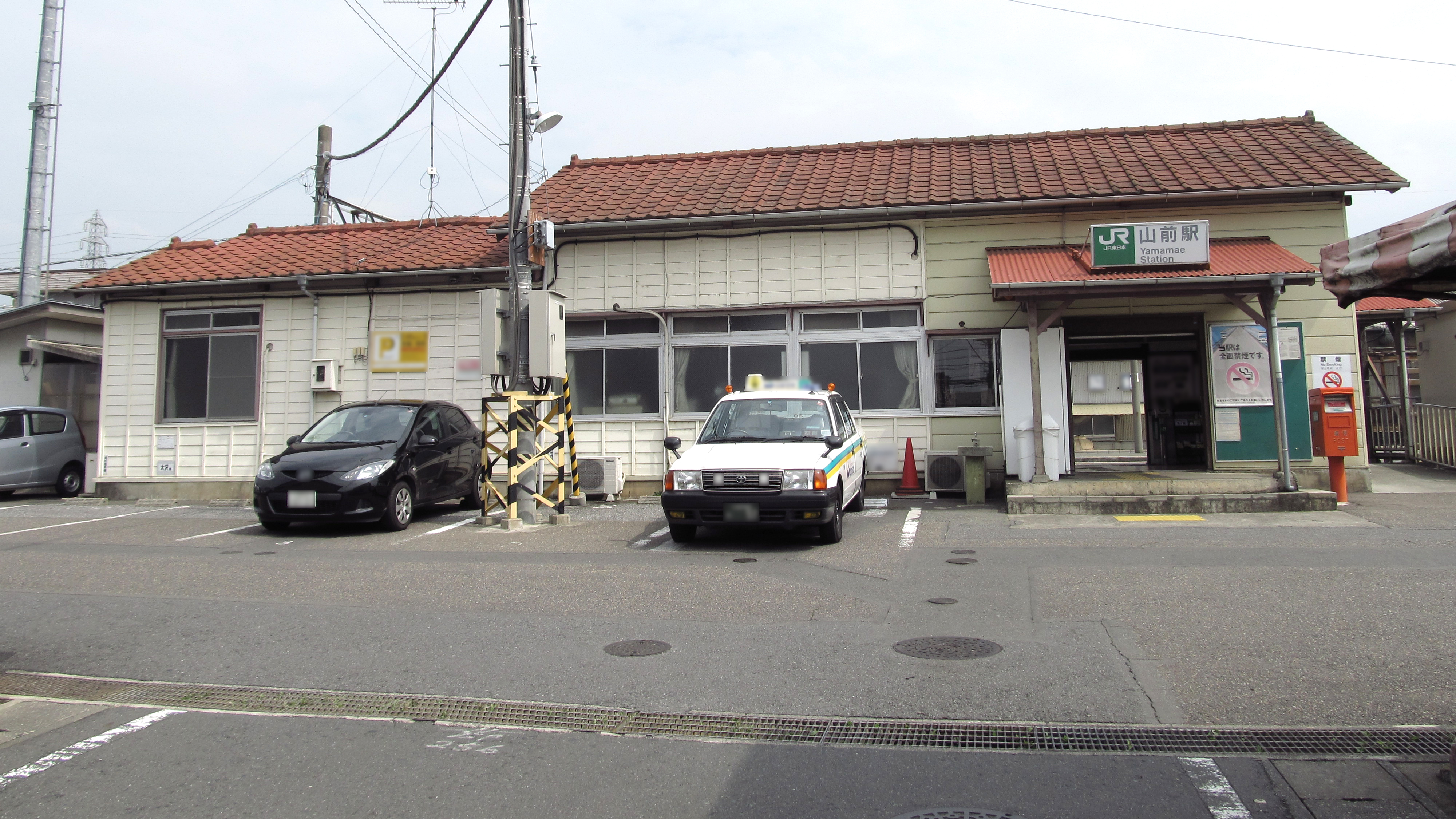 The building of Yamamae Station on the Ryōmō Line in Ashikaga city, Tochigi prefecture, Japan